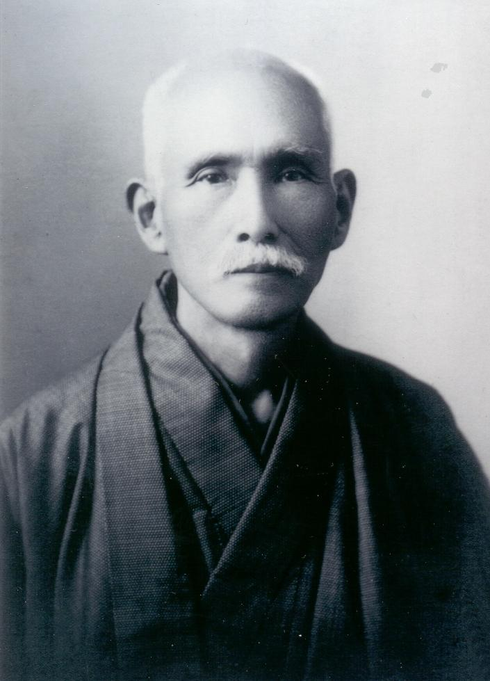 A famous Japanese linguist widely known for his research on Taiwanese Hokkien and Formosan languages.